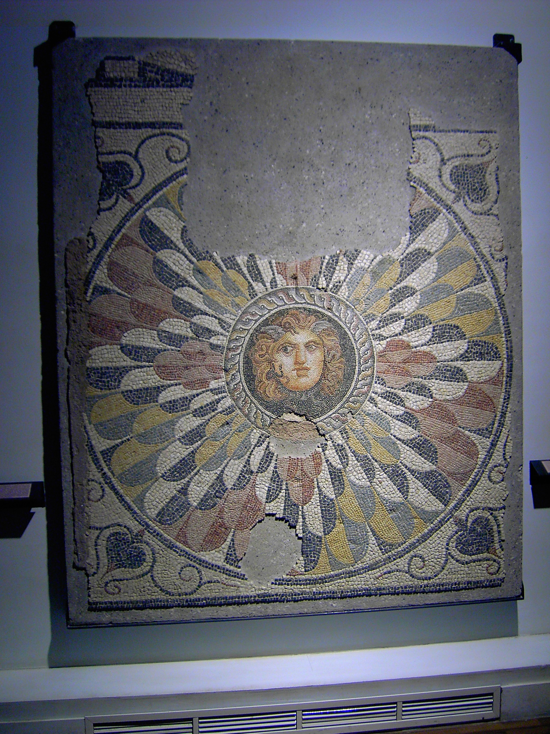 photo personnelle d'Alexandrie Medusa mosaic discovered in the Diana Theatre site in Alexandria (Egypt) by the Centre d’Etudes Alexandrines